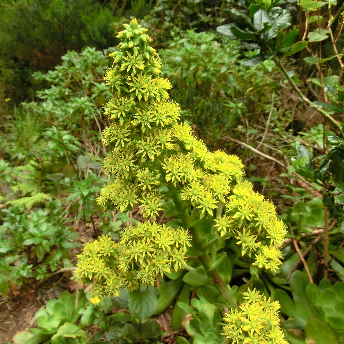 Aeonium cuneatum, inflorescence. Tenerife, Anaga mountains, ca. 1 km NE of Chinobre, laurel forest with tree heath, ca. 800 m.